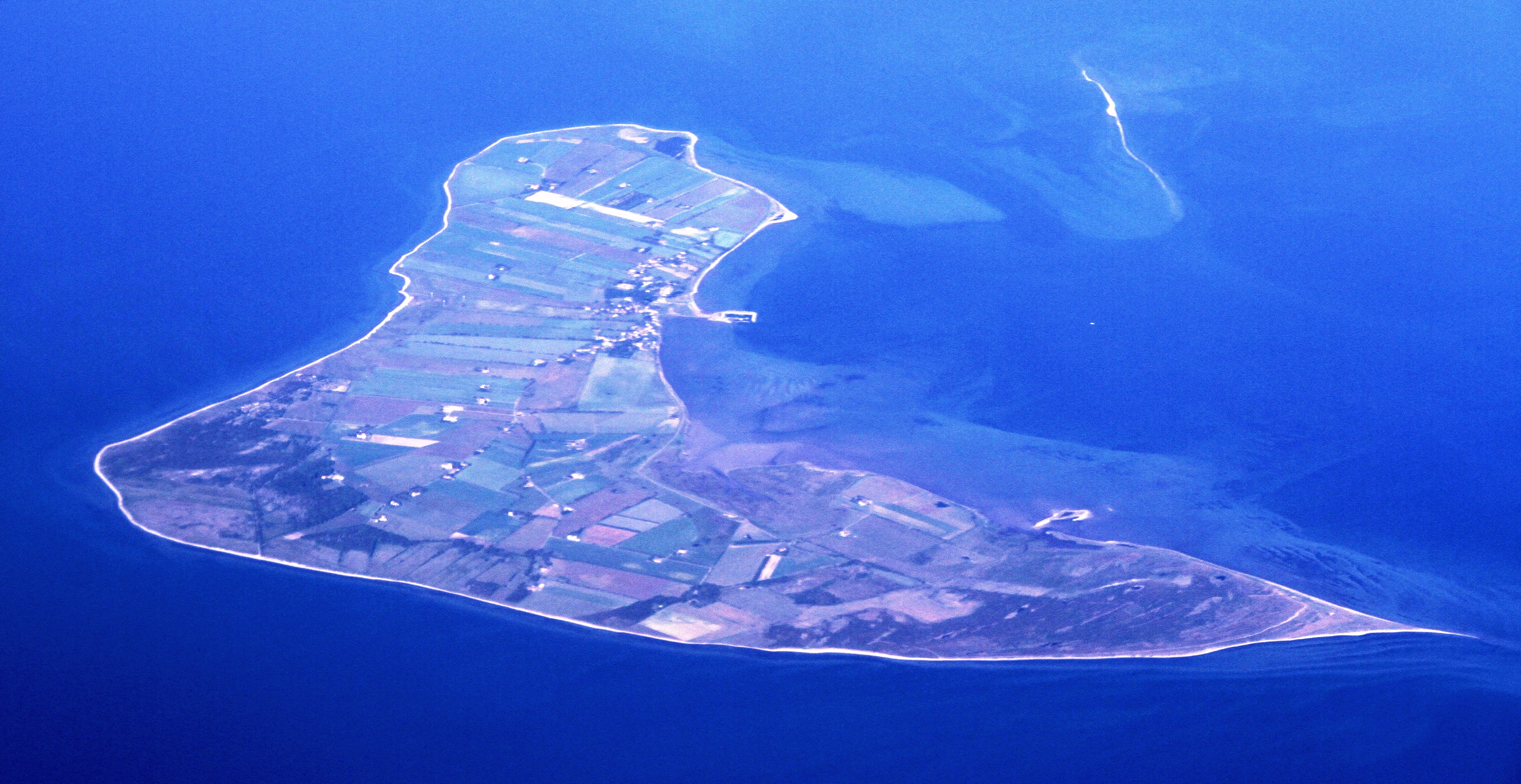 Endelave island in the Kattegat sea, between Aarhus and Sjælland in the middle of Denmark. Seen from the east.